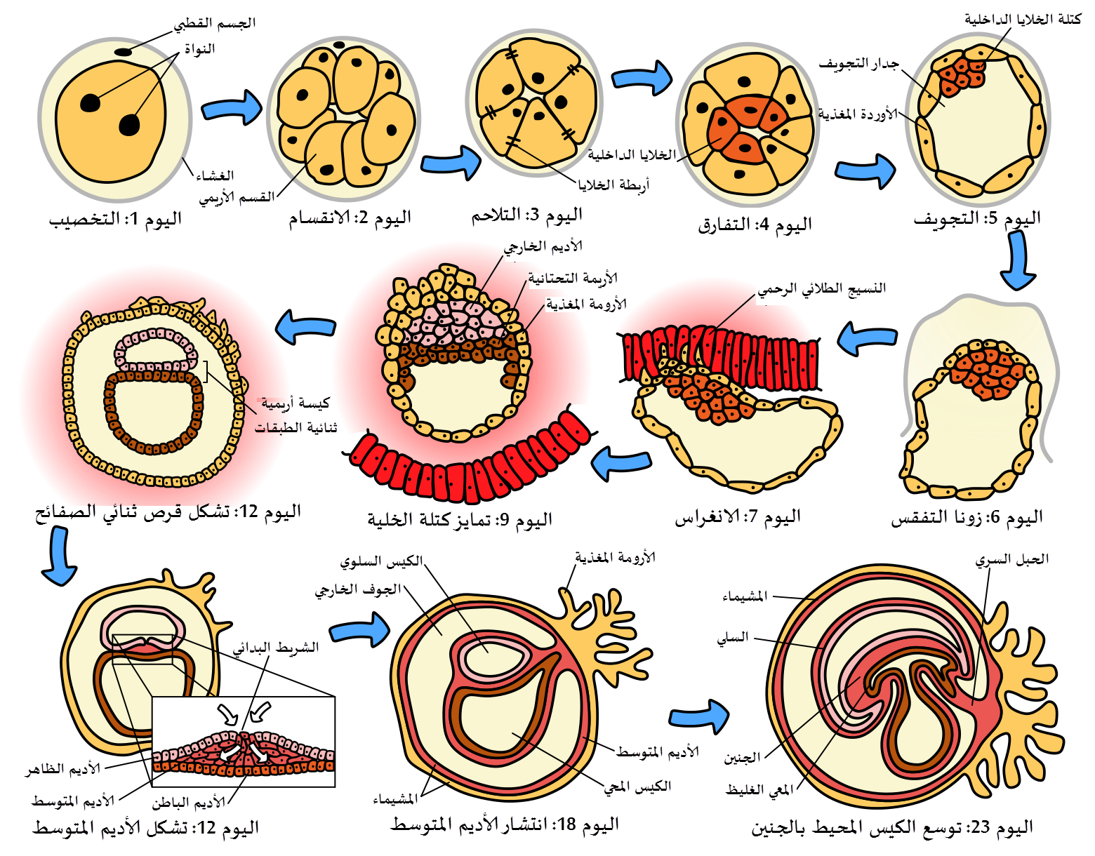 The first few weeks of embryogenesis in humans. Beginning at the fertilised egg, ending with the closing of the neural tube.